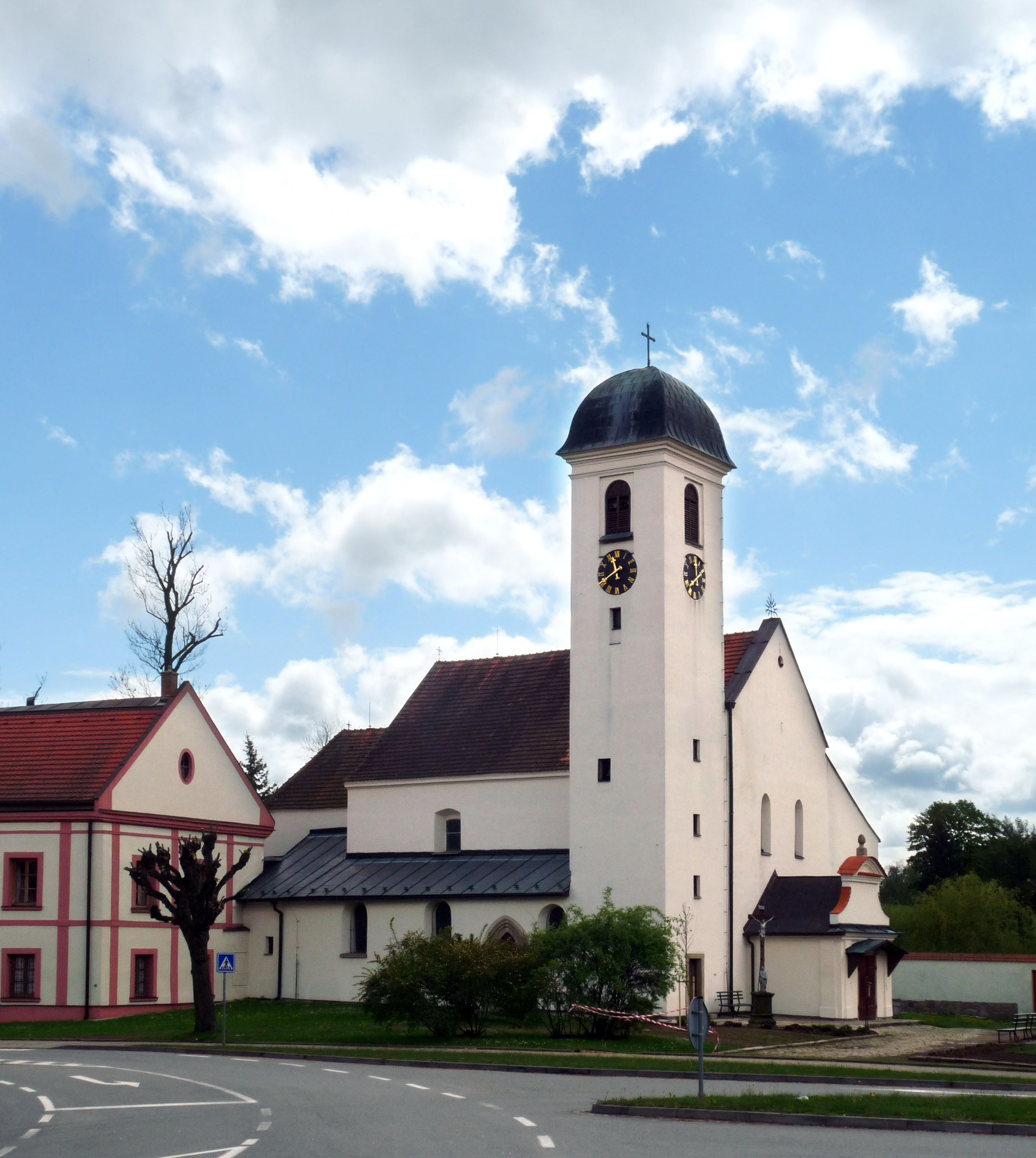 Church of the Annunciation of the Virgin Mary in the town of Horní Cerekev, Jihlava District, Vysočina Region, Czech Republic.